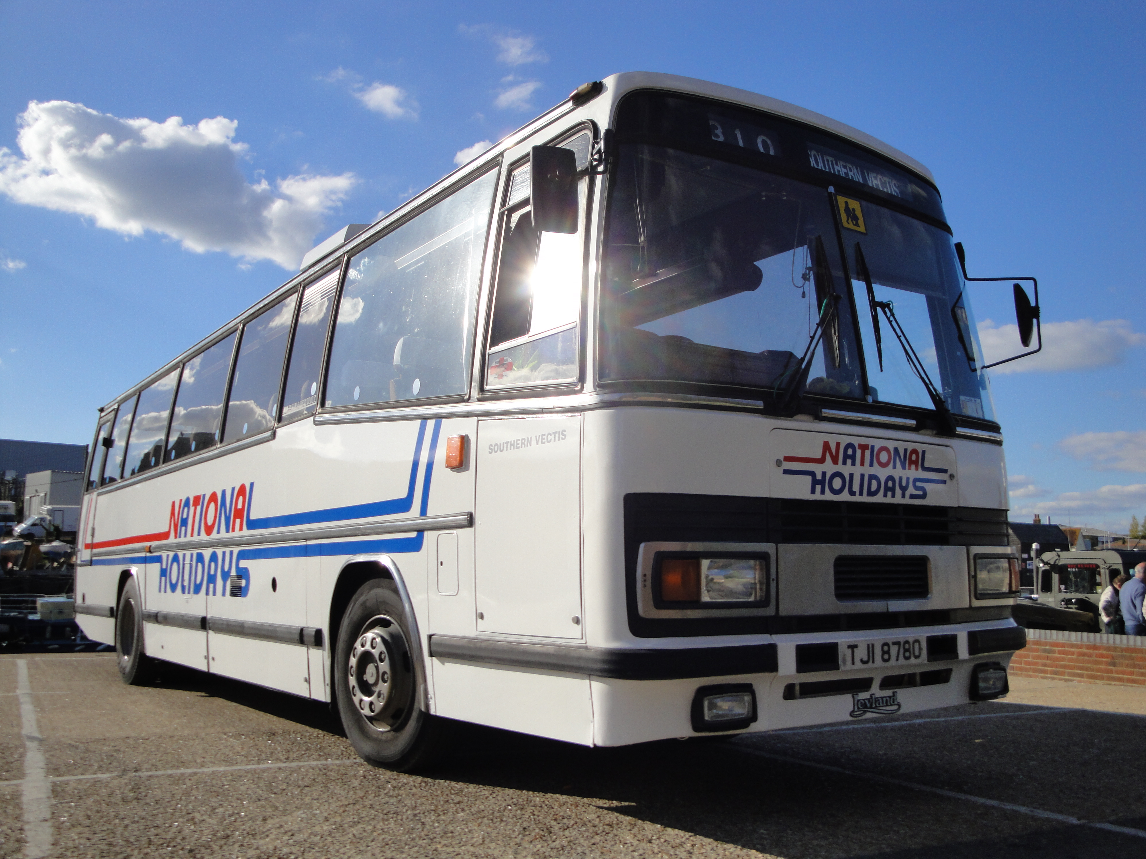 Preserved Southern Vectis 310 (TJI 8780), a Leyland Tiger at the time in Newport Quay, Newport, Isle of Wight for the Isle of Wight Bus Museum's October 2010 running day.